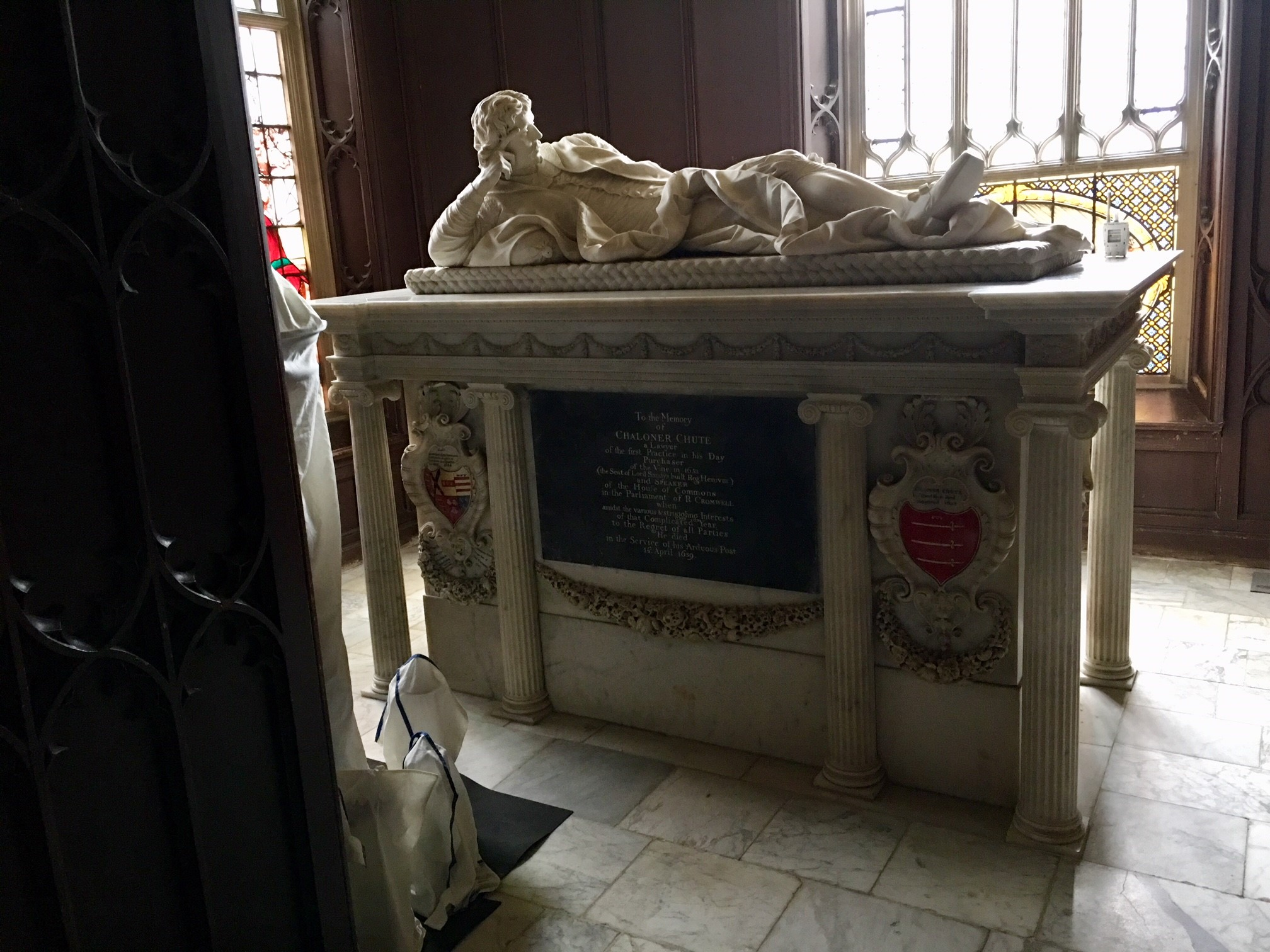 Memorial to Chaloner Chute in the chapel of The Vyne in Hampshire. - Empty tomb. Carrara marble sculpture by Thomas Carter the younger (d. Knightsbridge 1795), circa 1775-80. Designed by John Chute c.1771 in honour of his ancestor. The sarcophagus was designed by John Chute and carved by the statuary Thomas Carter. Carter's total fill for the tomb abnd floor paving acounted to £930 17s. 9d. The Speaker in fact lies buried in St Nicholas Church, Chiswick.